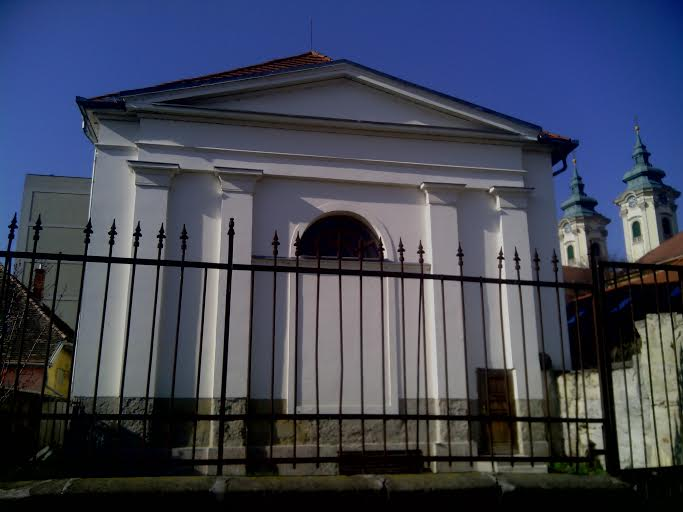 Former Little Synagogue, Eger